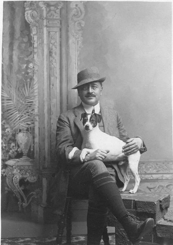 Depicted person: Arthur Bäckström, GODSÄGARE